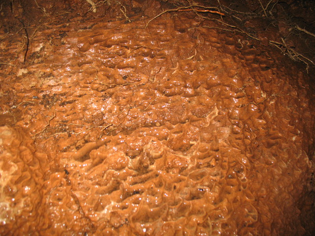 Rimstone cave formation in Vincent Cate's cave in Anguilla.